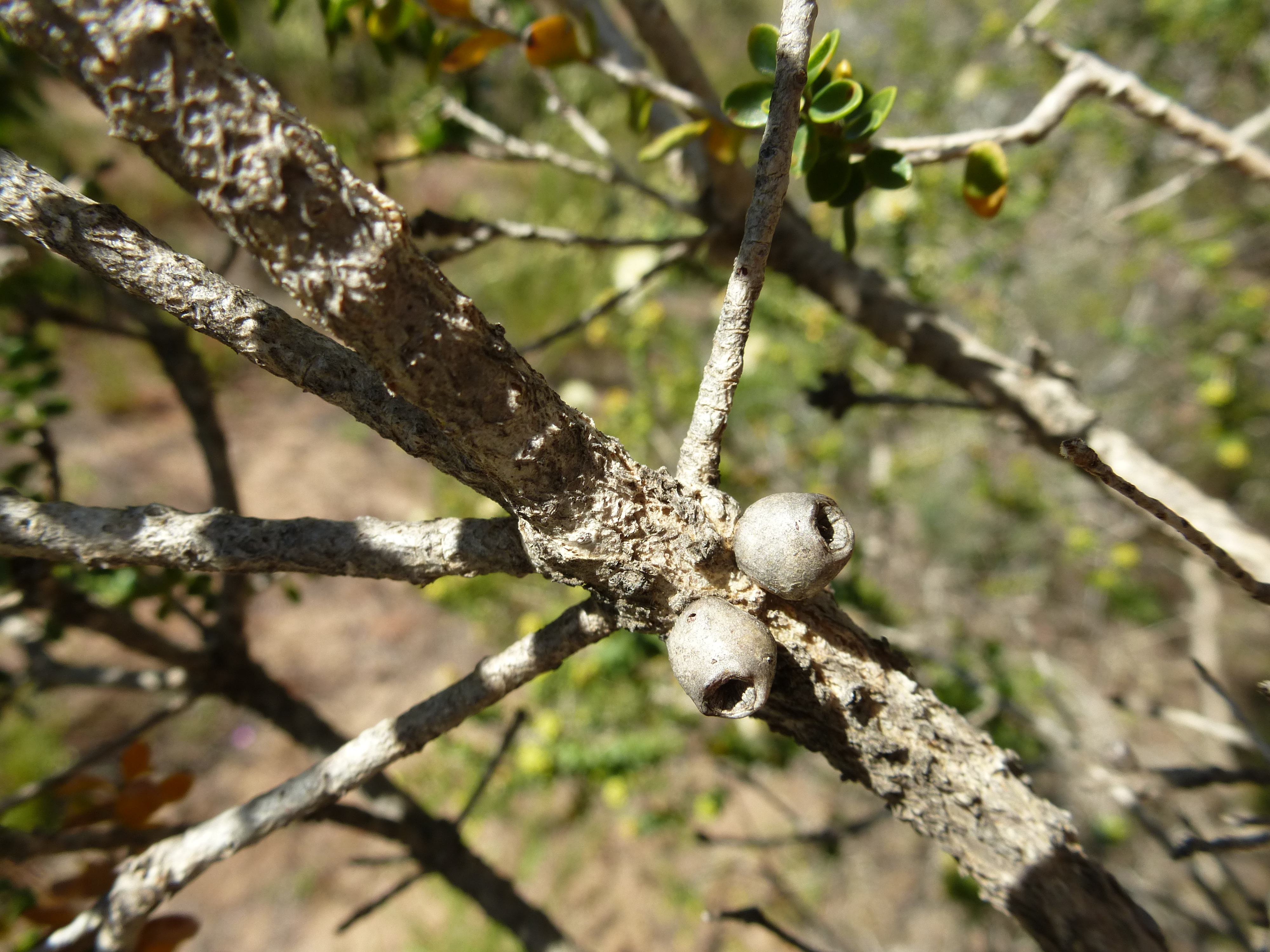 Melaleuca depressa near White Peak Road, N of Geraldton